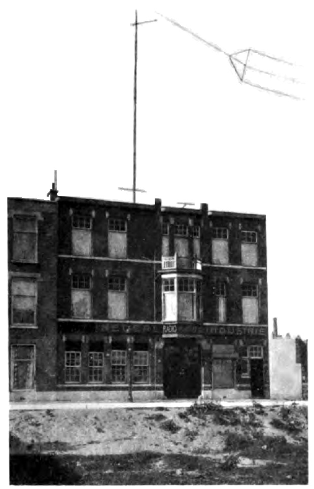 Caption: "Front view of the Works of the Nederlandsche Radio Industrie at the Hague." On the top of the building is the transmitting antenna for radio station PCGG.